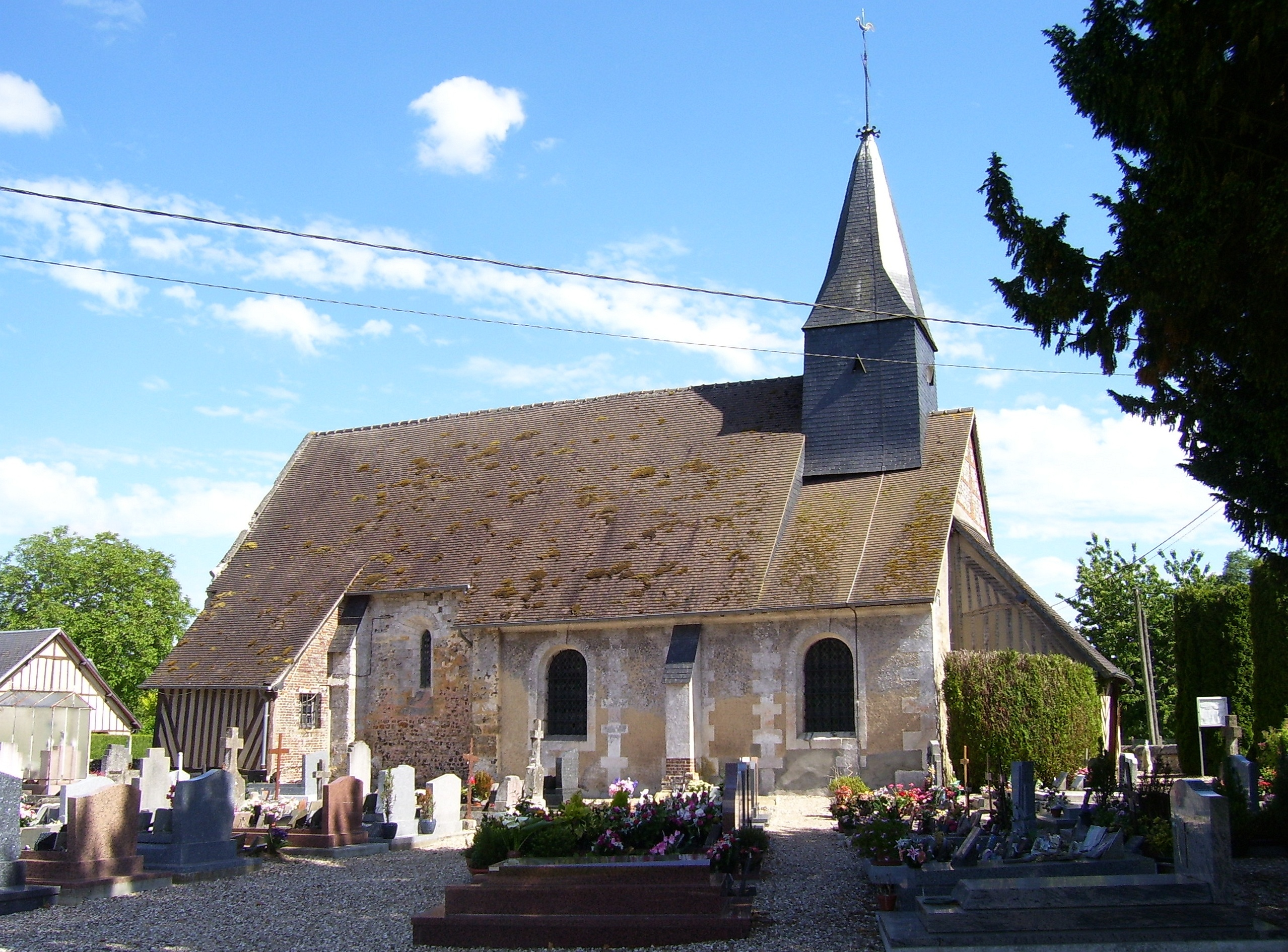 The church Saint-Aubin in Authou (département Eure, Normandie, France) was built in the 12th and 13 th century.